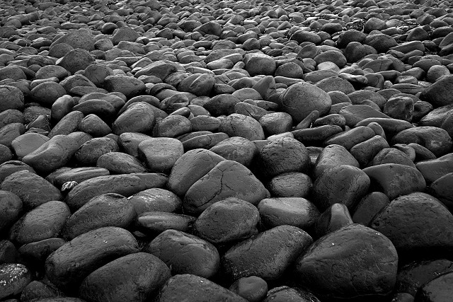 Boulders, Embleton Bay Embleton Bay has a sweep of sand, but at its southern end lie, according to your notion of scale, either large stones or small boulders; the larger ones here are perhaps slightly more than a foot across. On a dreich day, the stones/boulders have a beguiling lustre.